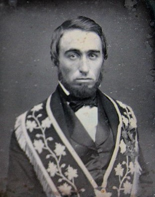 Photograph of Capt. Edwin Hillyer c. 1849. Photographer unknown.